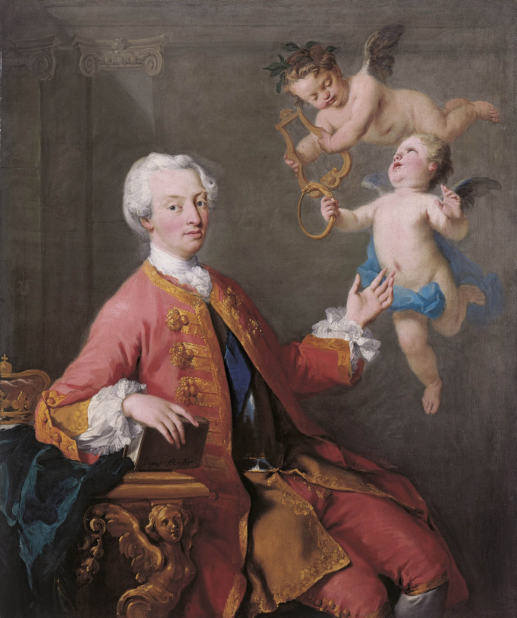 Portrait of Frederick, Prince of Wales